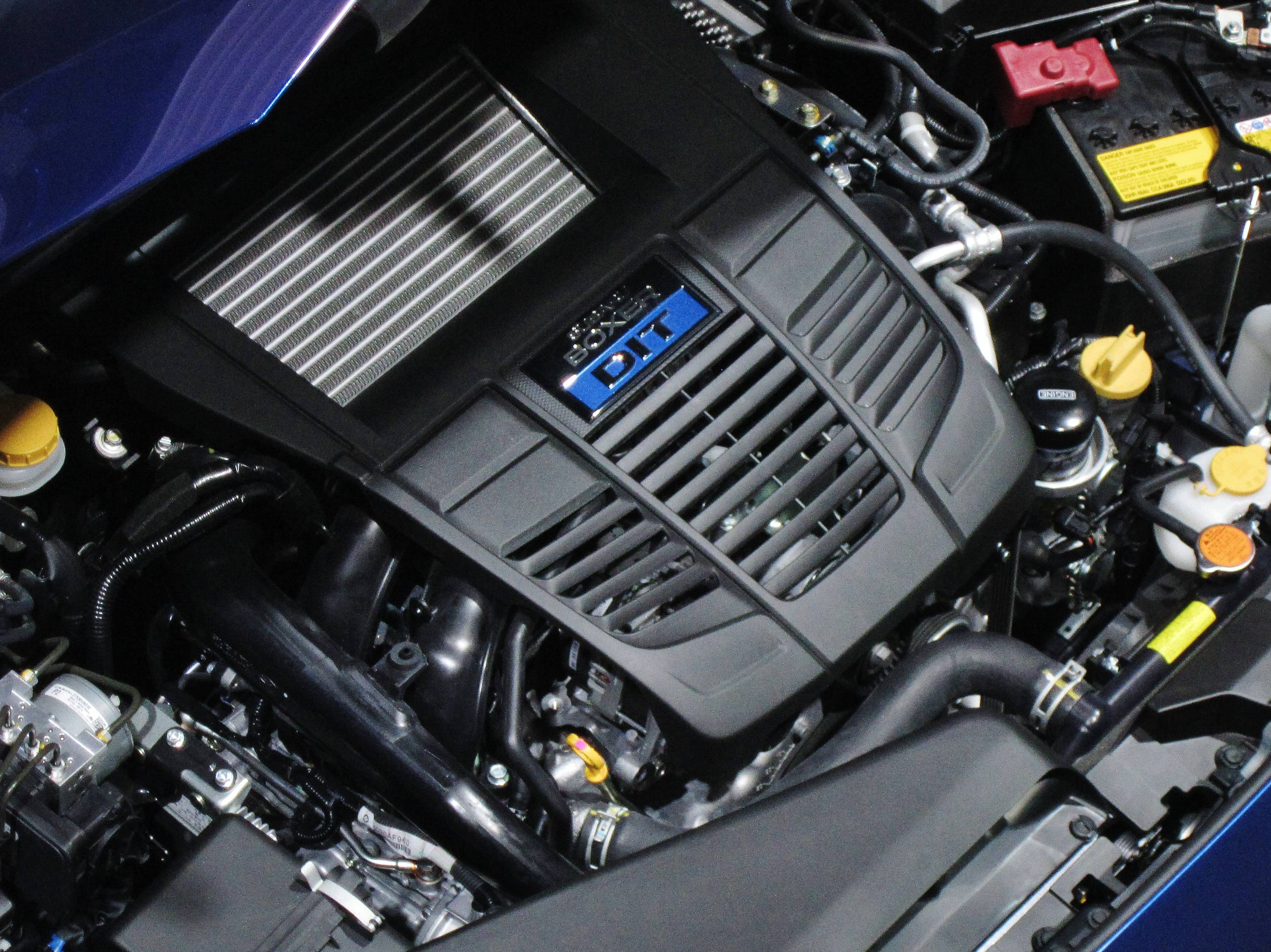 Subaru Levorg FA20 DIT (Direct Injection Turbo) engine at the Tokyo Motor Show 2013.